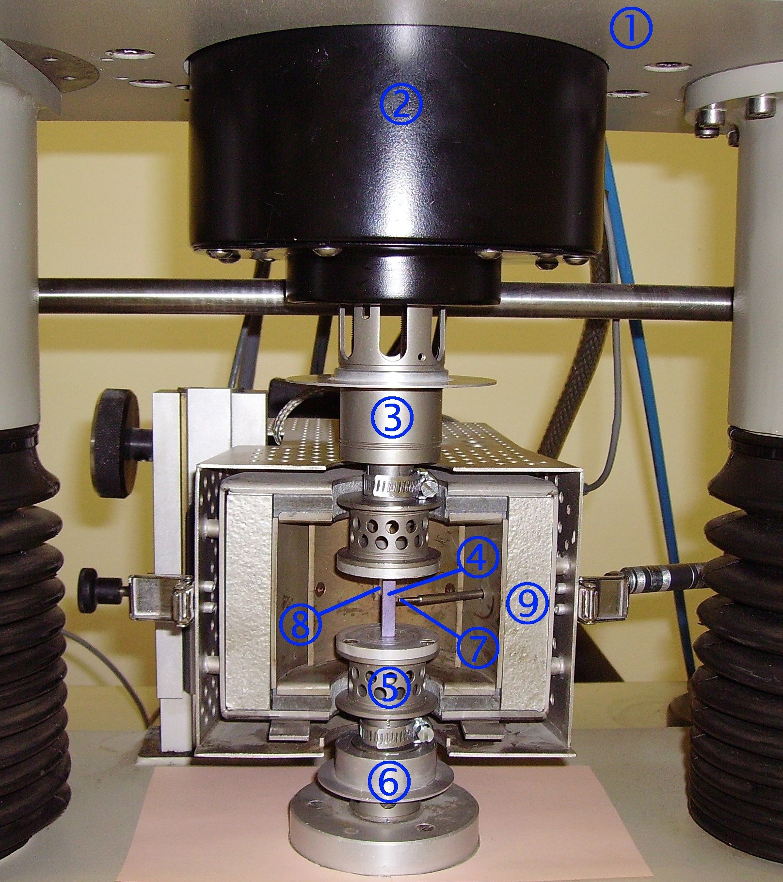 Description of the measuring column of a Viscoanalyzer, a device by Metravib Instruments, model: VA-3000, year 2000. It is a DM(T)A tester. Tension-compression test on a thermosetting plastic specimen (purple parallelepiped) bonded to the sample holder.